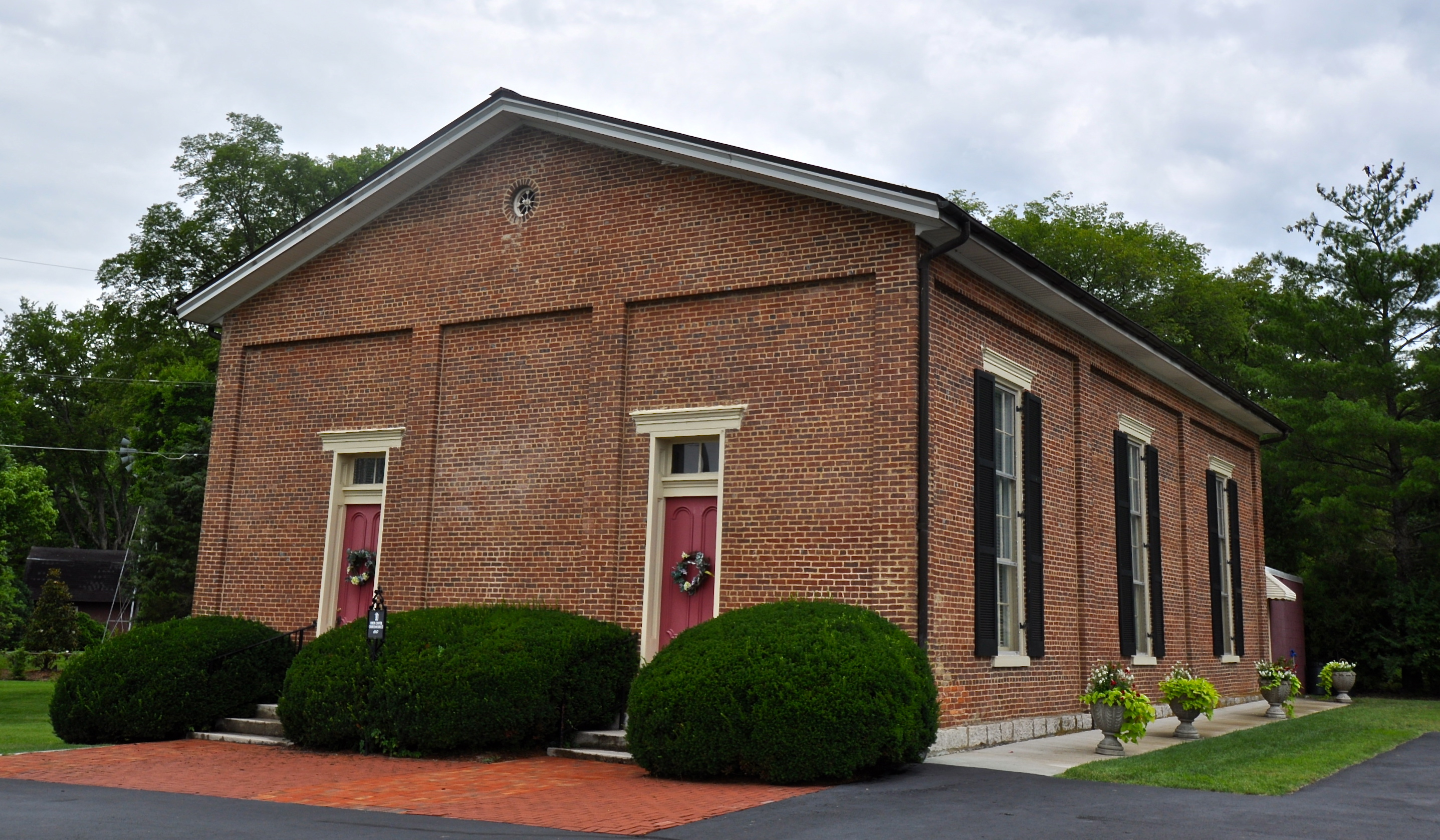 Located at Brentwood, Tennessee. NRHP Reference #86002914